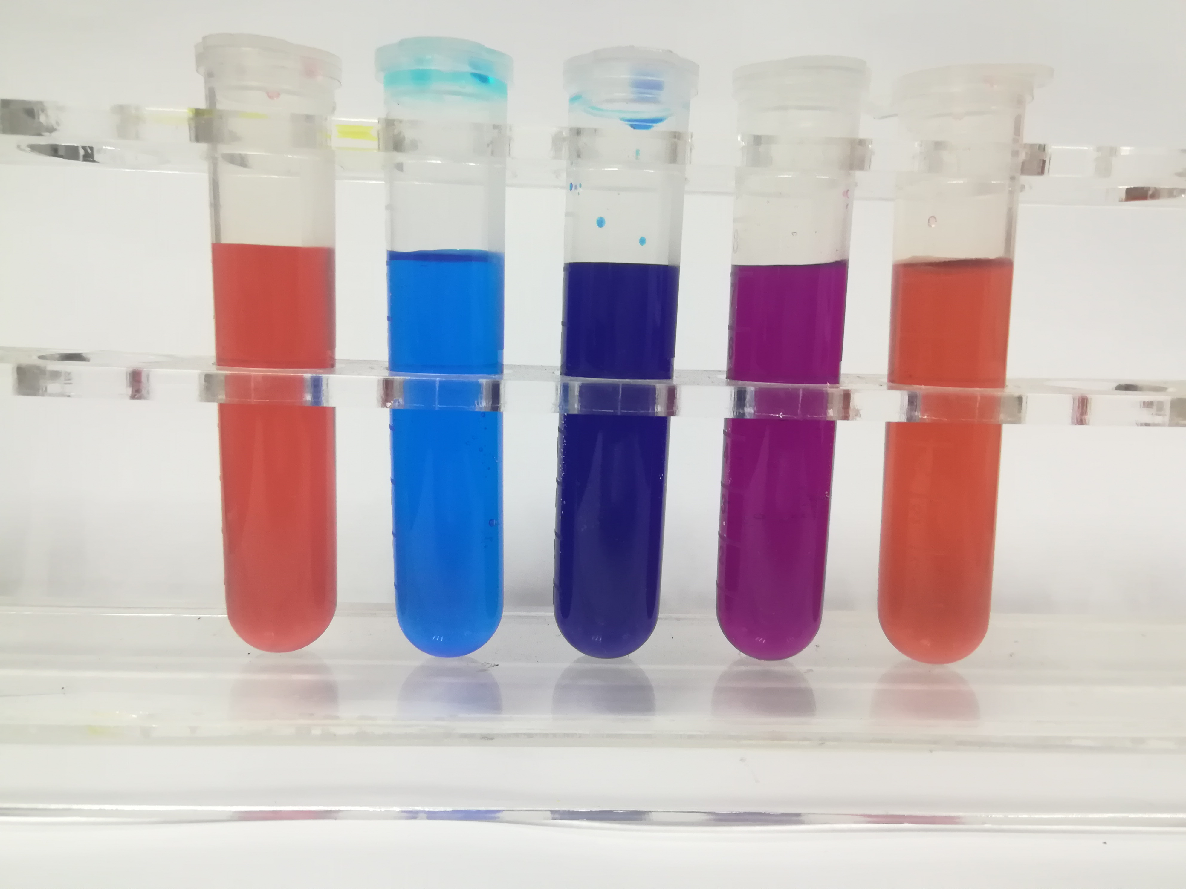 Illustration of autocomplex of CoCl2 in DMSO. The other 4 tubes are for comparison. From left to right: CoCl2 in H2O, CoCl2 in HCl (containing [CoCl4]2-), CoCl2 in DMSO, Co(ClO4)2 in DMSO (containing [Co(DMSO)6]2+) and Co(ClO4)2 in H2O. All cobalt salts are 0.5 mol/L and hexahydrated. CoCl2 reacts with DMSO to form an autocomplex: 2 CoCl2 + 6 DMSO ⇌ [Co(DMSO)6]2+ + [CoCl4]2-. The color of this solution is the mix color of [CoCl4]2- and [Co(DMSO)6]2+.